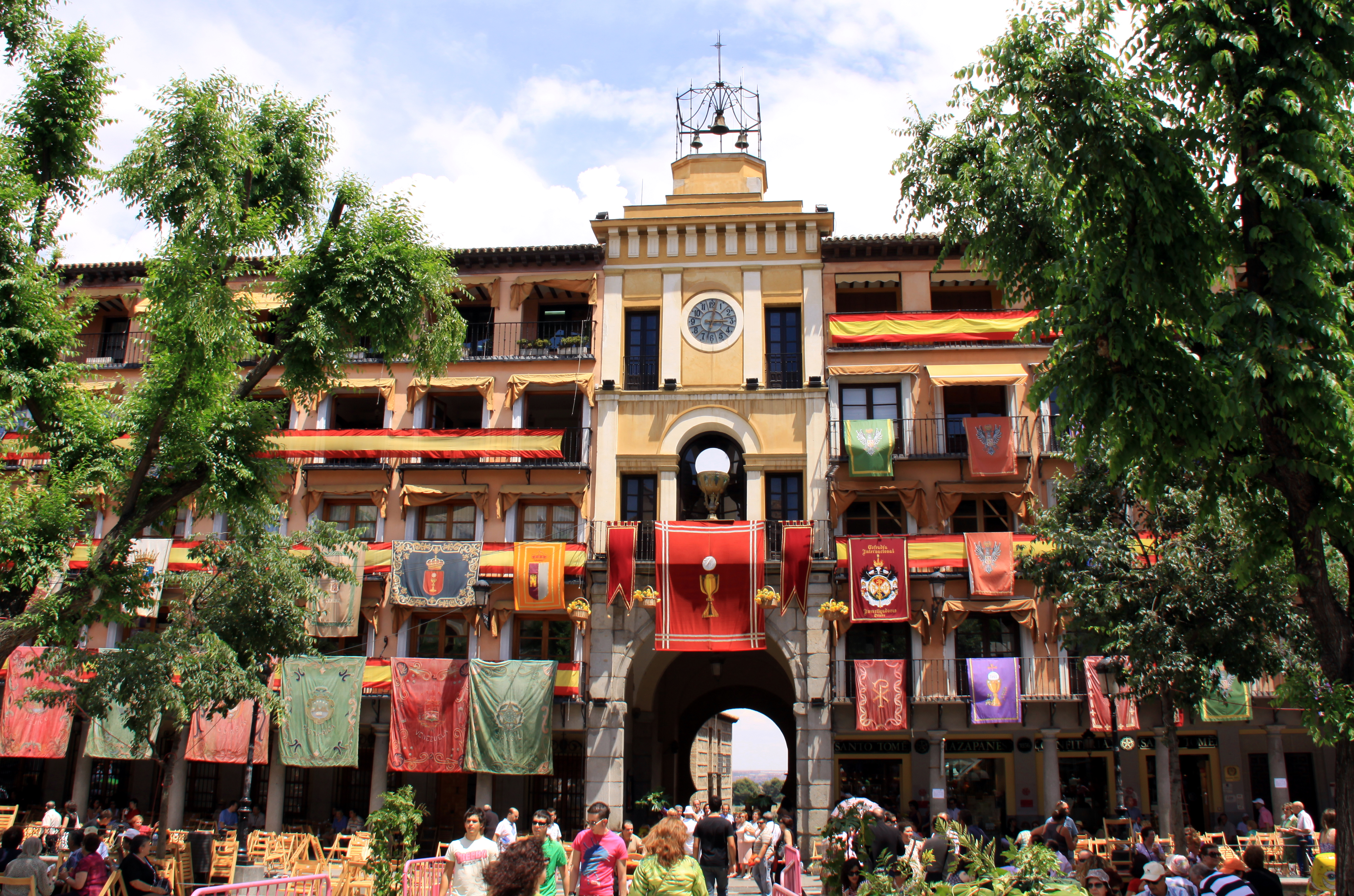 Toledo, Plaza de Zocodover